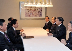 Fumio Kishida, Minister for Foreign Affairs, met Ikuo Kabashima, Governor of Kumamoto Prefecture, in Kumamoto City, Kumamoto Prefecture on October 10, 2013. (For terms of use, see 法的事項 ｜ 外務省.)